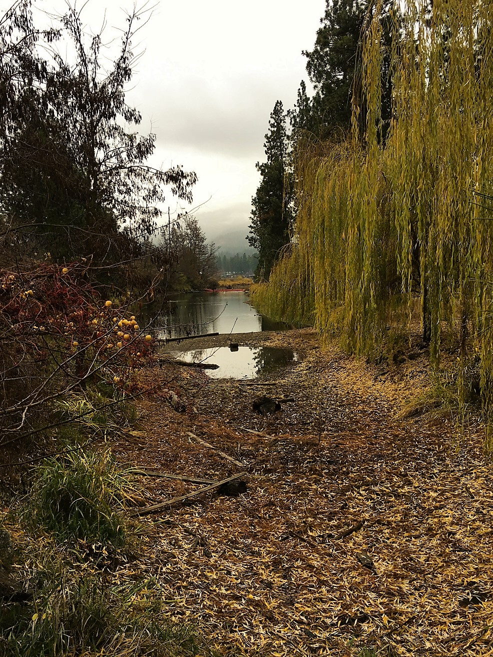 Spokane Valley Land and Water Company Canal